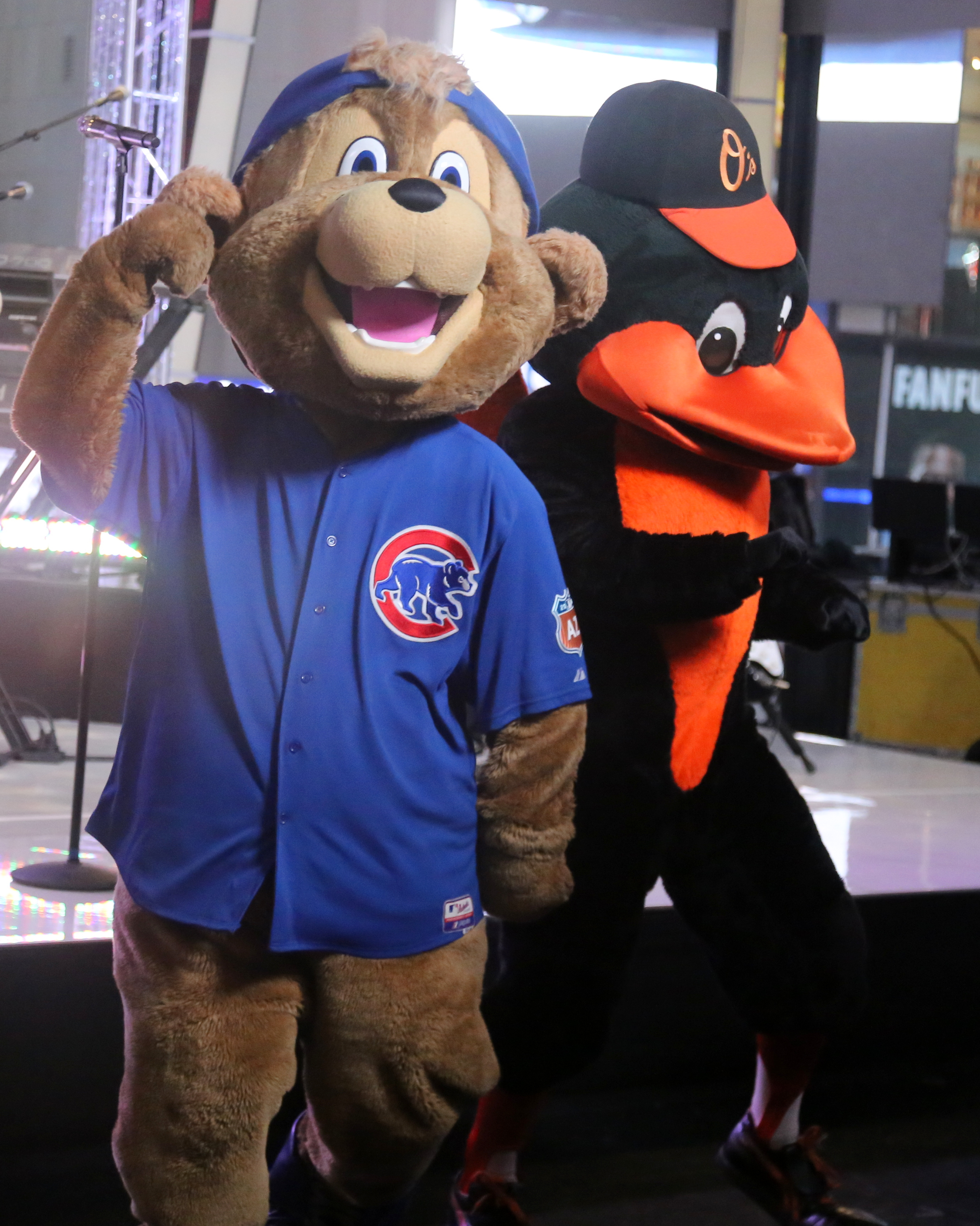 Clark the Cub (left), mascot of the Chicago Cubs, and the Oriole Bird, mascot of the Baltimore Orioles, dance on the set of the TV show Good Morning America.